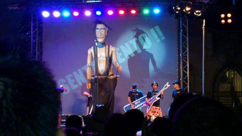 Farras de Granollers . Festa major 2015